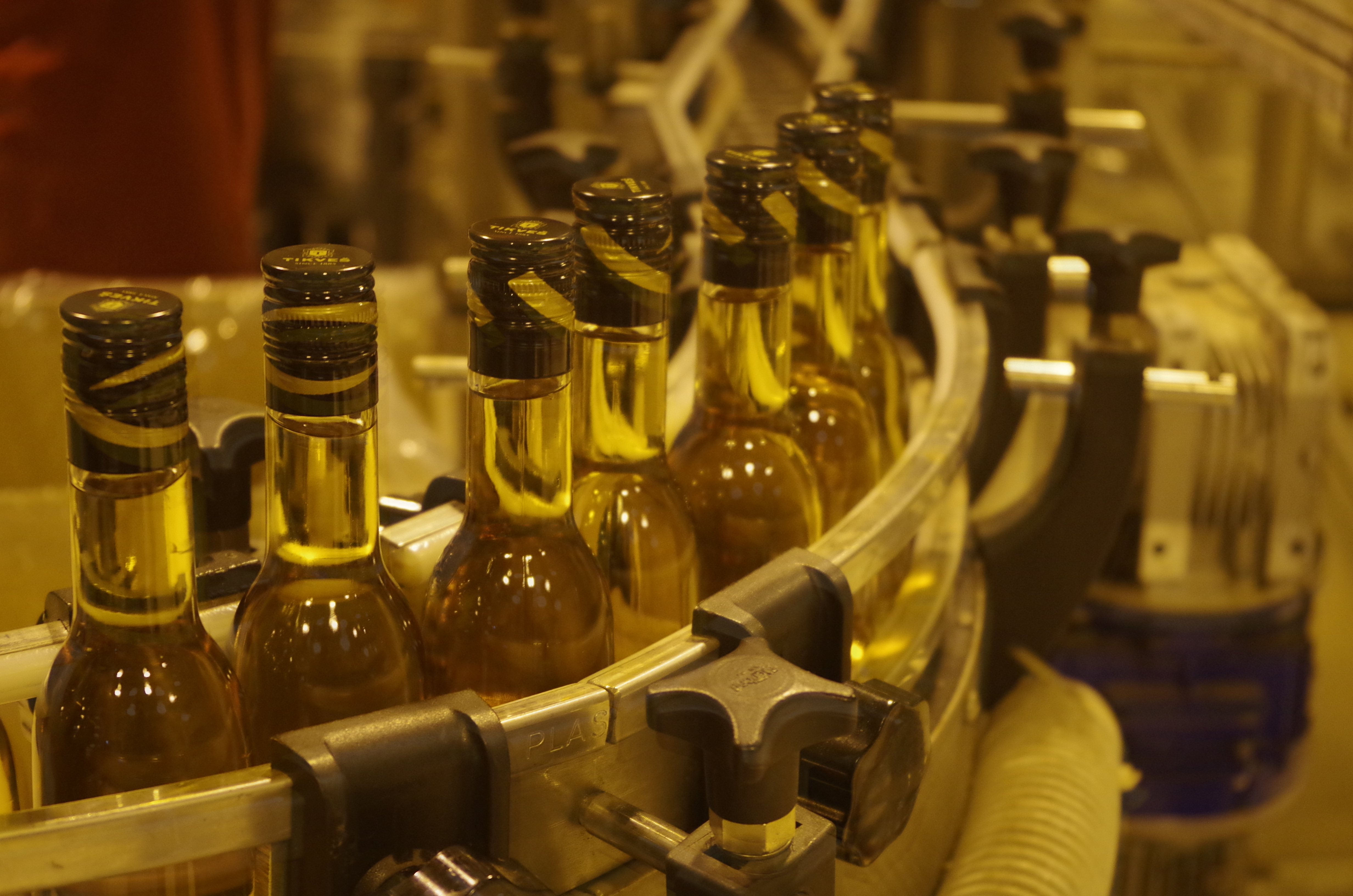 Rakija from Tikvesh Winery